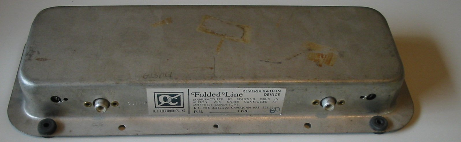 O. C. Electronics, inc. Folded Line reverberation device Manufactured by beautiful girls in Milton, Wis. under controlled atmosphere conditions.dubious U.S. pat. 3,363,202 / Canadian pat. 825,330 Type 60